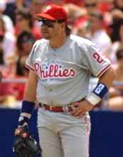 Philadelphia Phillies first baseman John Kruk at Busch Memorial Stadium, 1992.